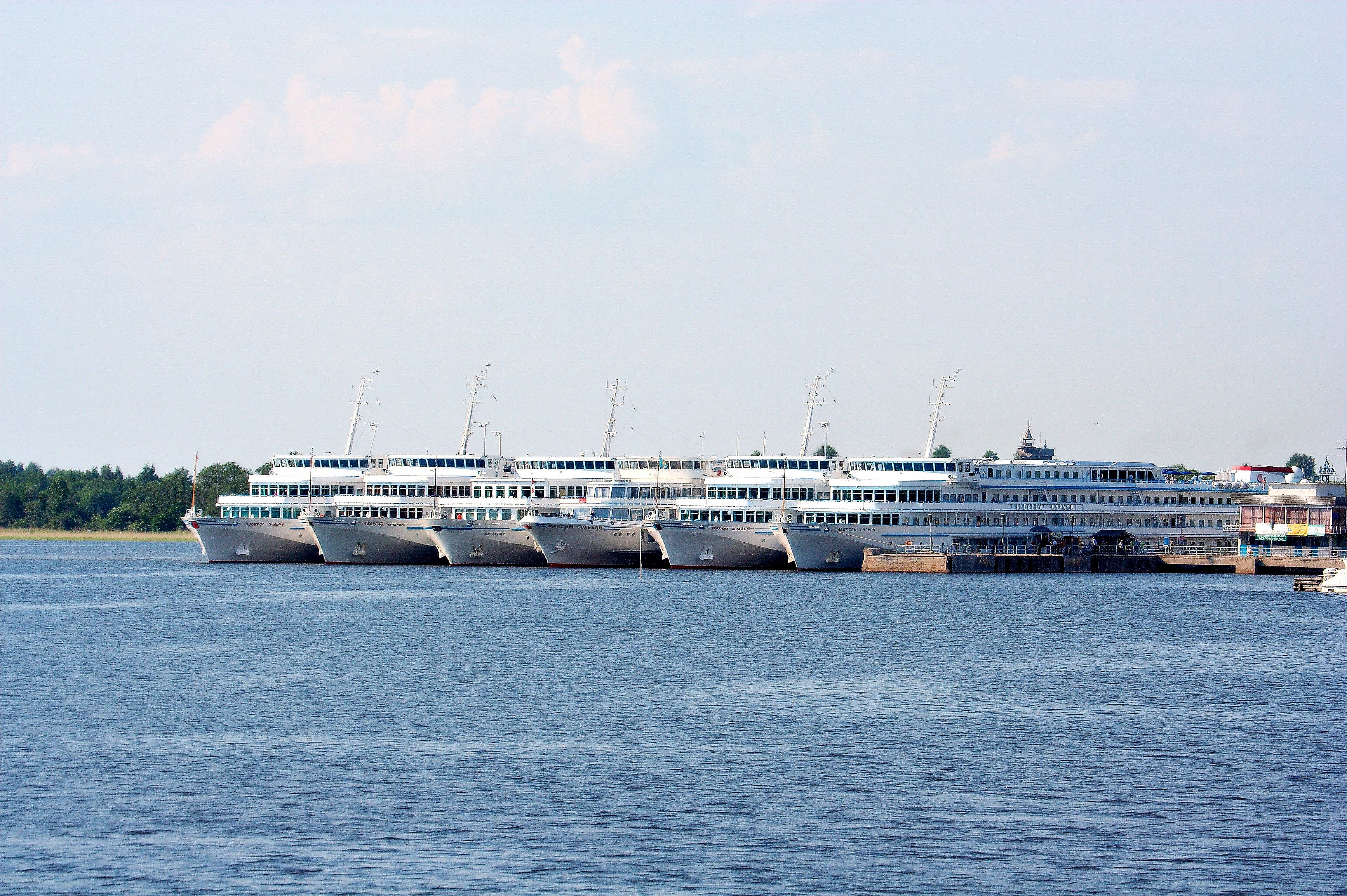 Lake Onega. River cruise ships at quay in Kizhi. From the left to the right: Novikov-Priboy (now Sergey Dyagilev), Georgiy Chicherin, Petergof (now Viking Ryurik), Maksim Gorkiy, Mikhail Sholokhov, Aleksey Surkov (now Viking Helgi).